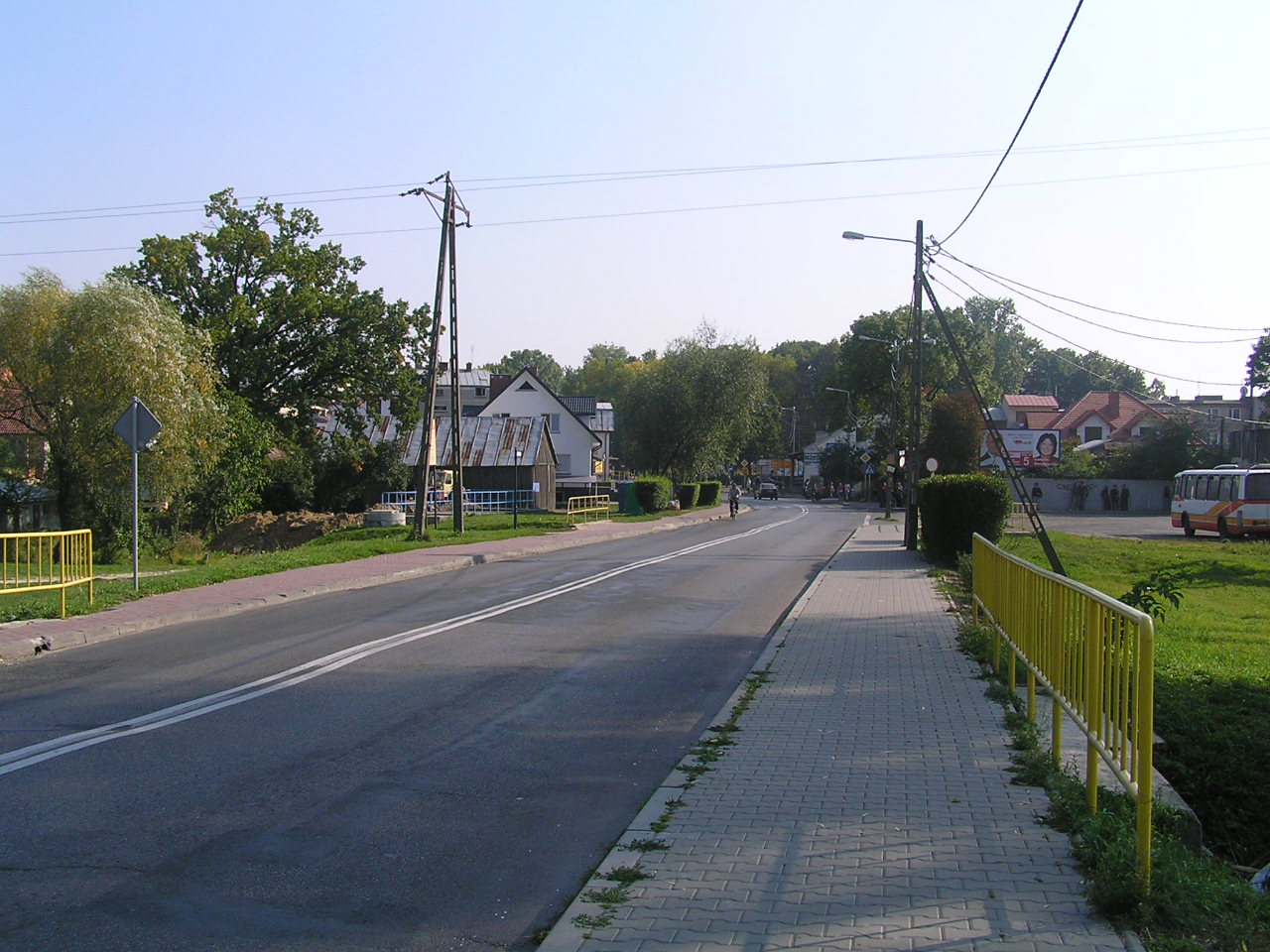 autor: Yarek shalom 22:02, 9 October 2006 (UTC)yarek shalom